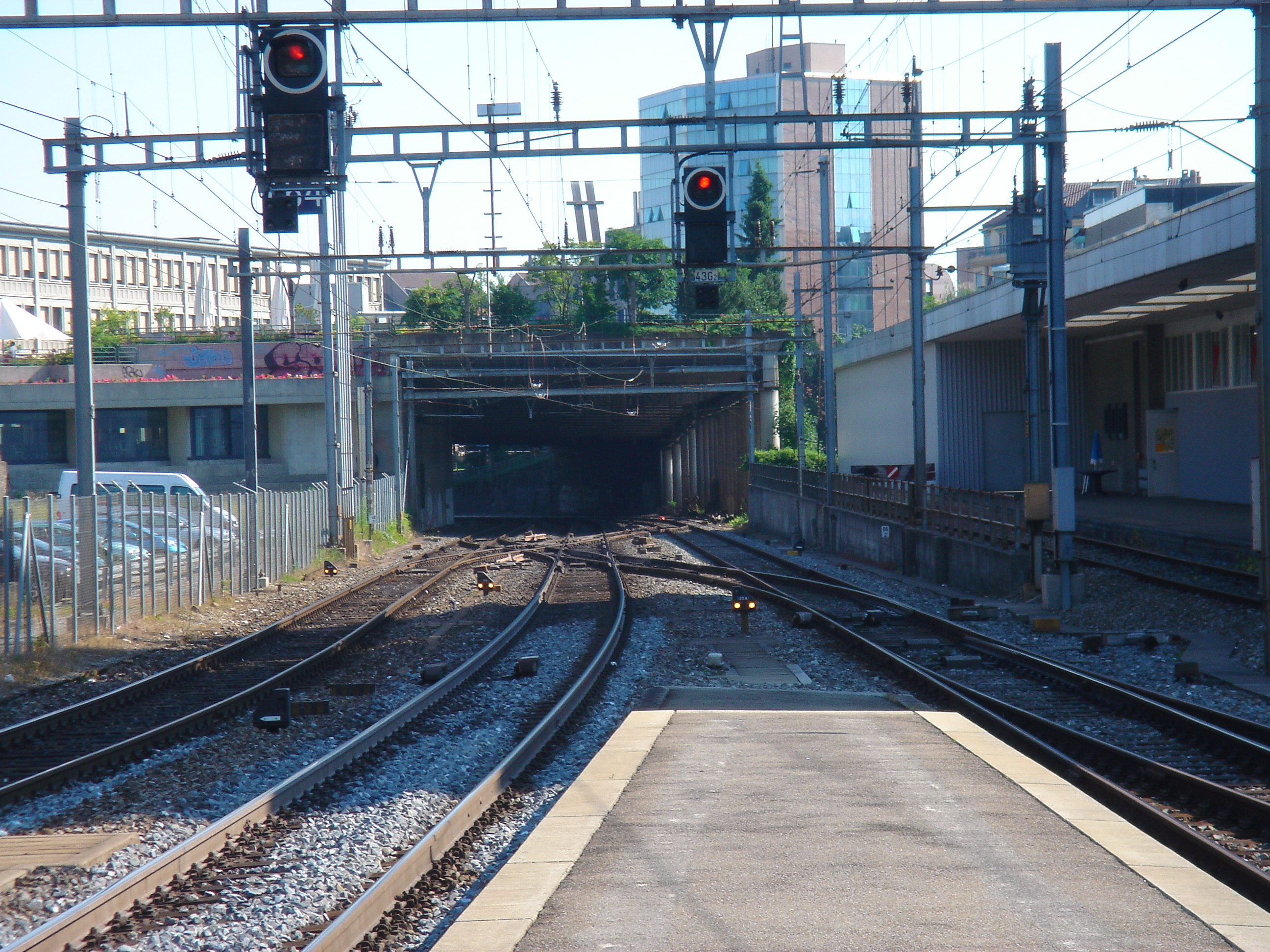 Fribourg/Freiburg railway station, tracks leading in the direction of Berne. Signal system N and dwarf signals between the rails